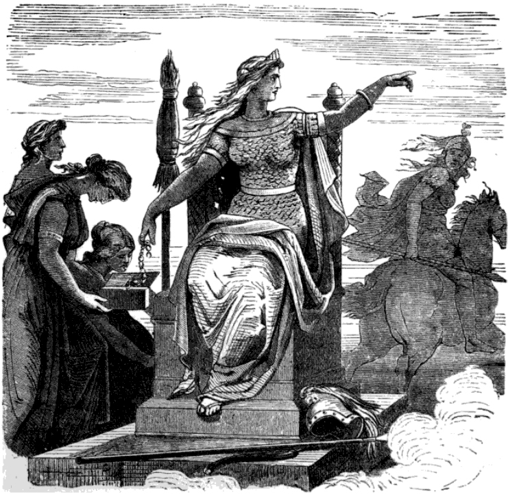 Captioned as "Frigg and her Maidens". The goddess Frigg, center, points to her left, seemingly commanding Gná, riding her horse Hófvarpnir, to run an errand for her. To Frigg's right is Fulla, who is holding Frigg's eski (an ashen box). Two other females are on Frigg's right, but they are unidentifiable.